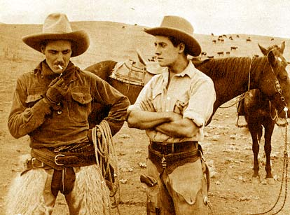 Still from The Squaw Man (1918 film).